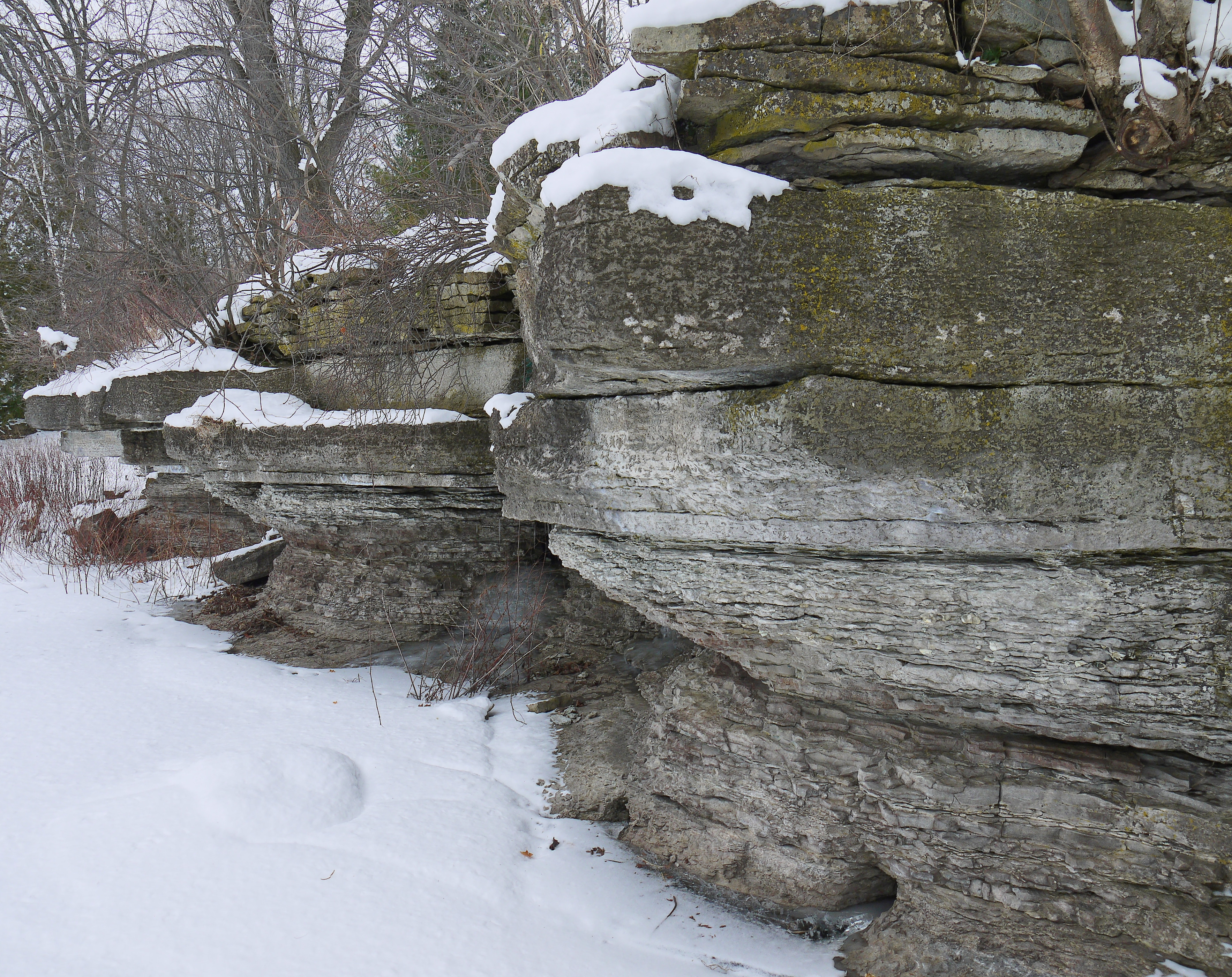 Outcrop of the Gull River formation on the shore of lake St. John.